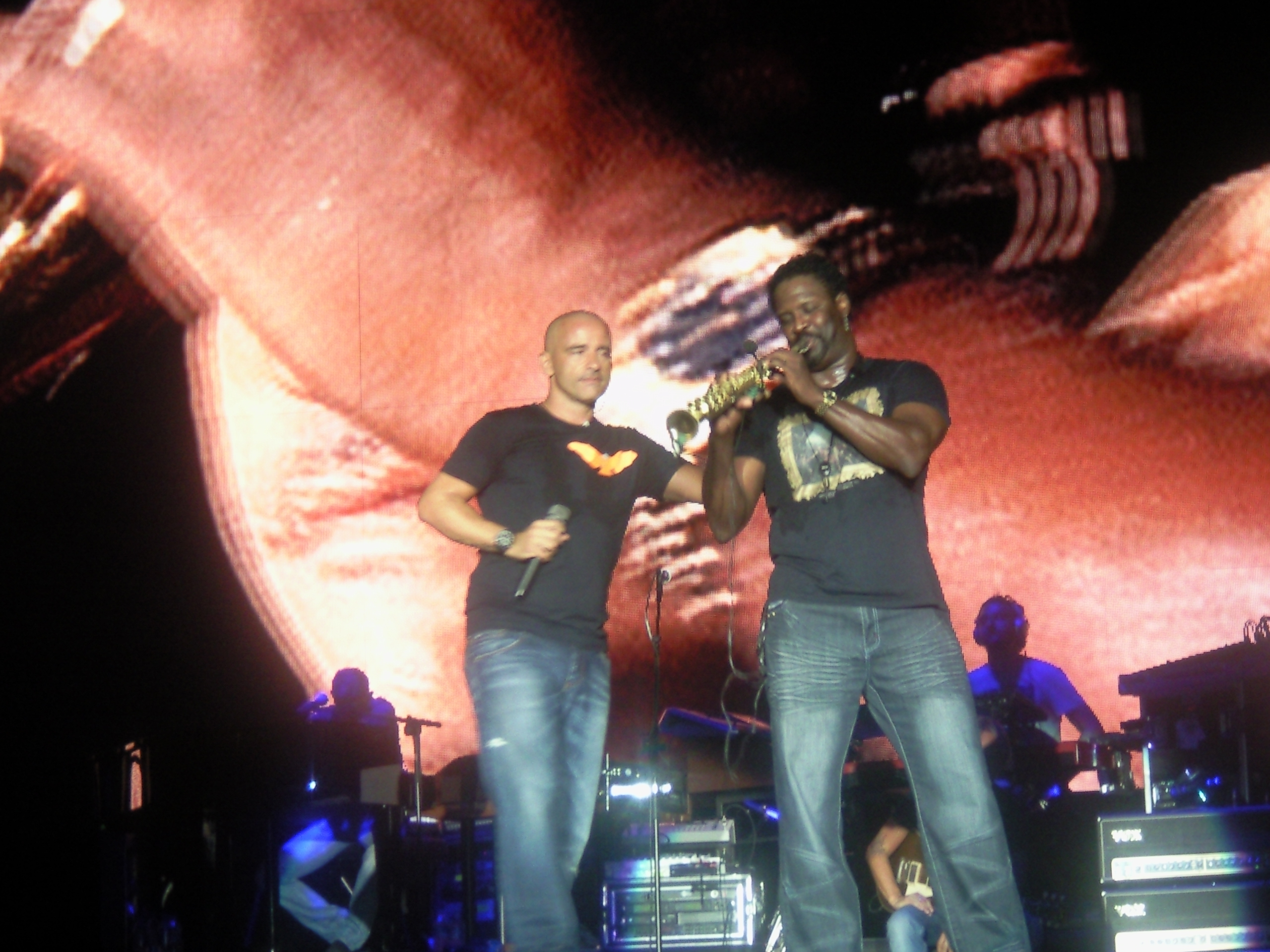 Eros Ramazzotti in İstanbul Concert